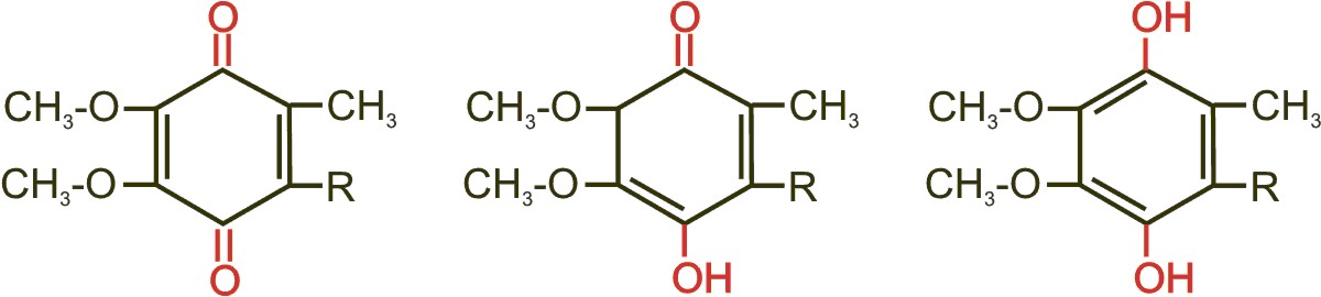 ubiquinone ubiquinol semiubiquinone formula jpg